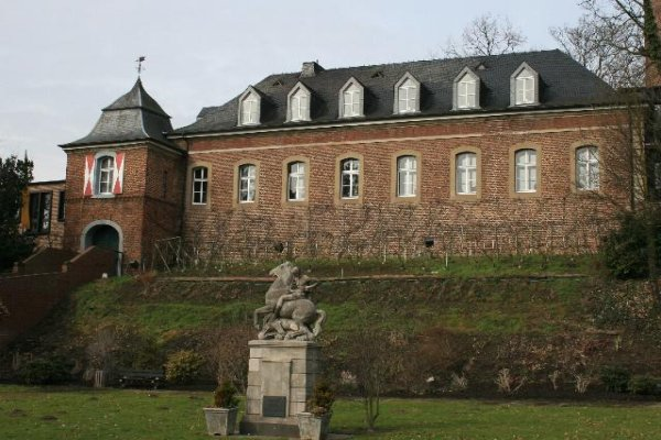 Cultural heritage monument No. 49 in Wassenberg